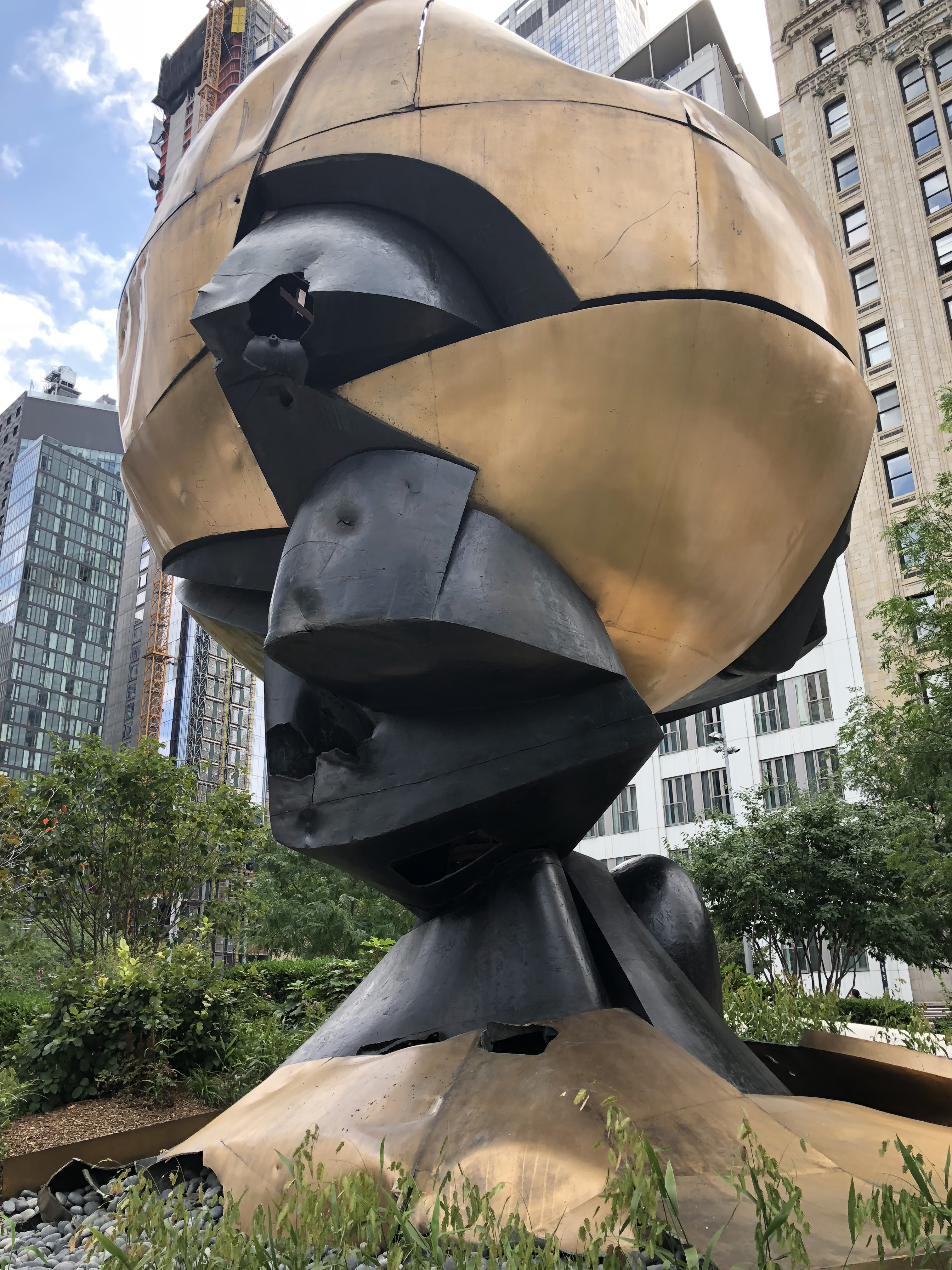 It was originally located on the plaza in the World Trade Center. It was recovered from the rubble of the WTC, following the September 11, 2001 attack.